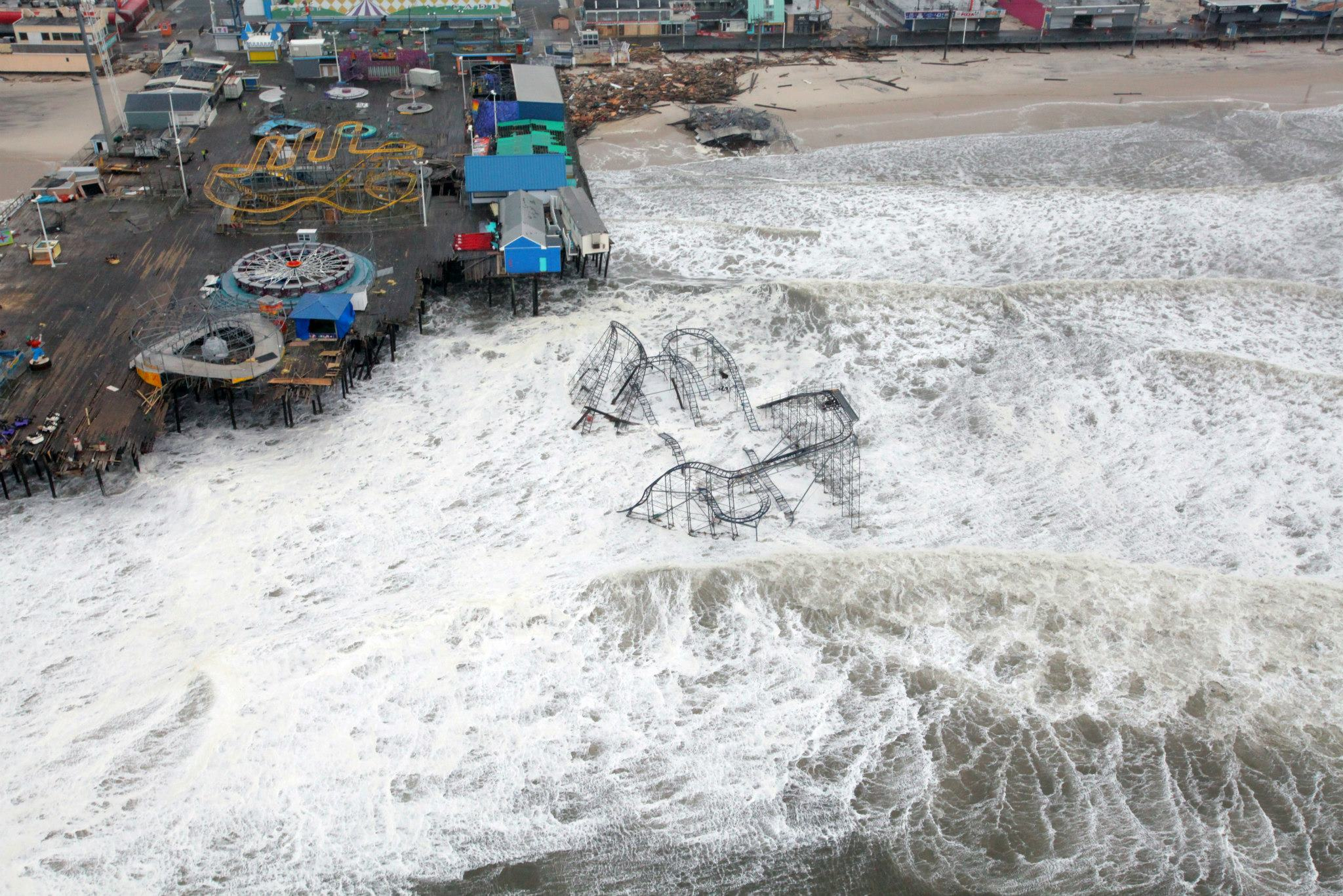 Aerial views of the damage caused by Hurricane Sandy to the New Jersey coast taken during a search and rescue mission by 1-150 Assault Helicopter Battalion, New Jersey Army National Guard, Oct. 30, 2012. (This appears to be Casino Pier, Seaside Heights, New Jersey.)